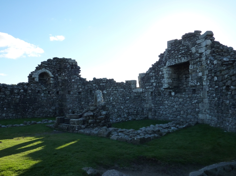 Loch Doon Castle, East Ayrshire, Scotland - towerhouse remains